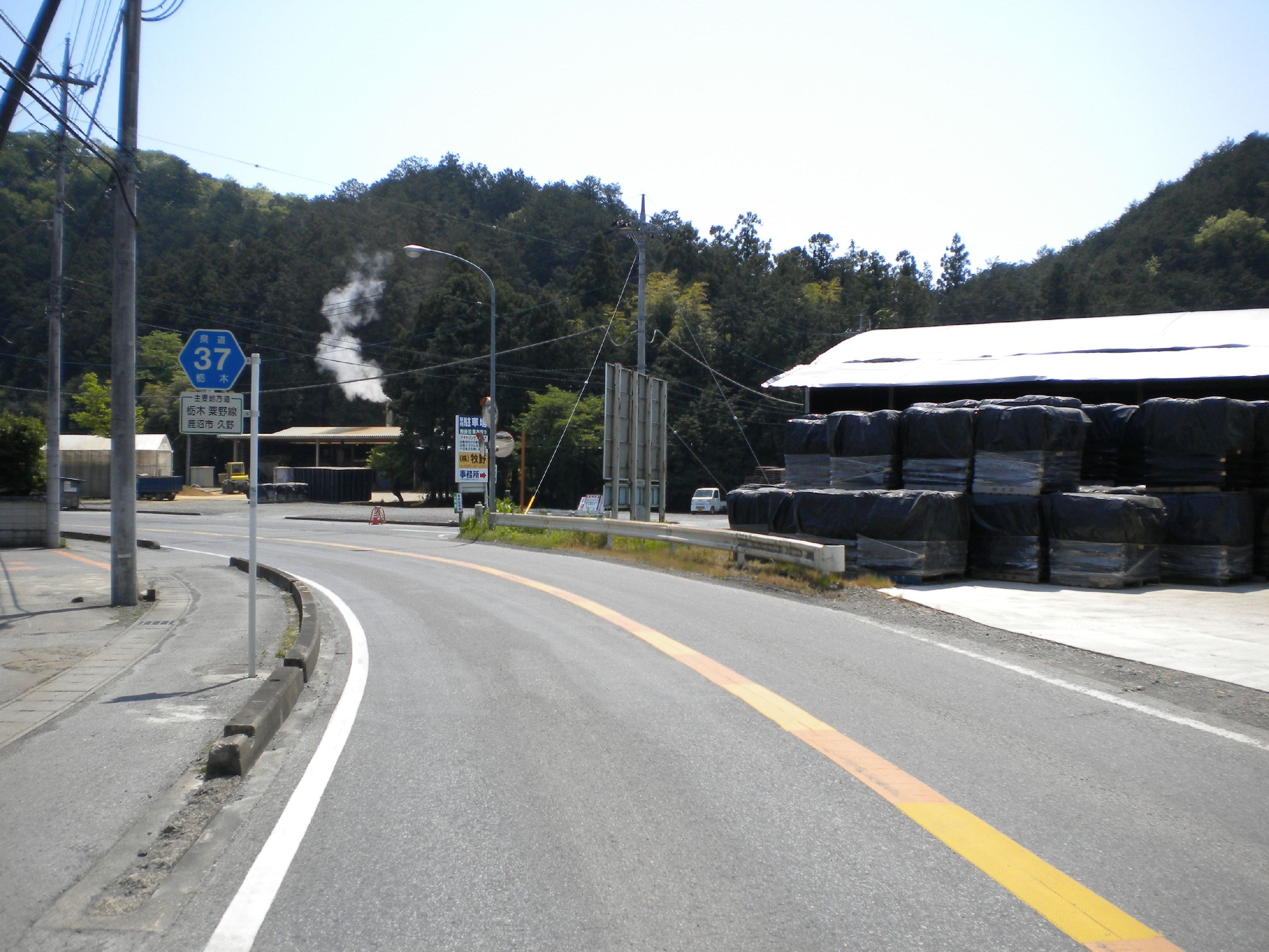 Tochigi prefectural road No.37 on Kanuma city